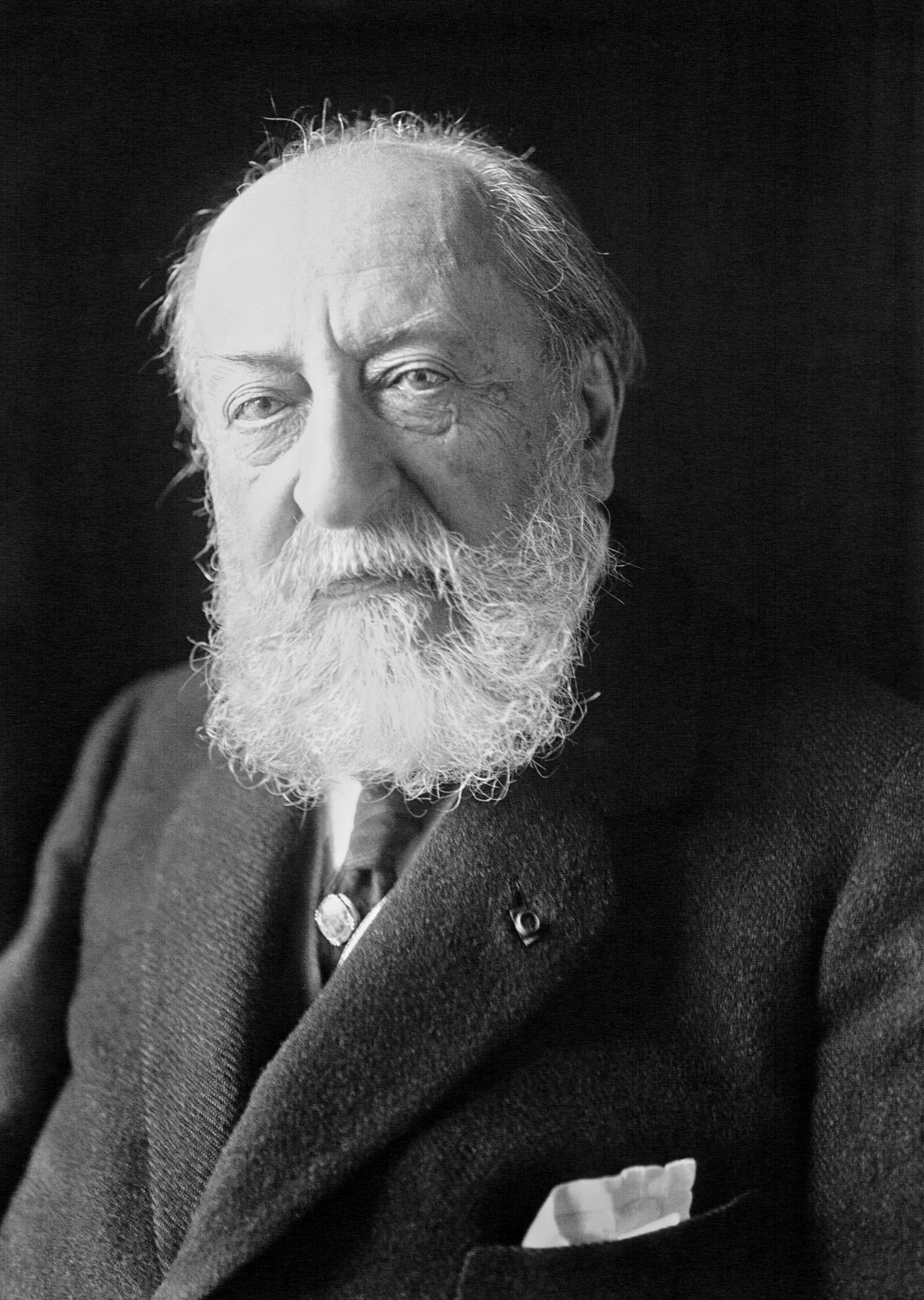 Camille Saint-Saëns (1835-1921), French composer. Picture taken in 1921 : glass plate negative, restored and cropped print.